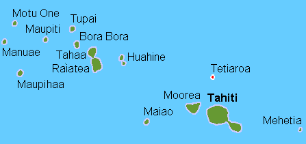 Location of Tetiaroa within Society Islands, French Polynesia